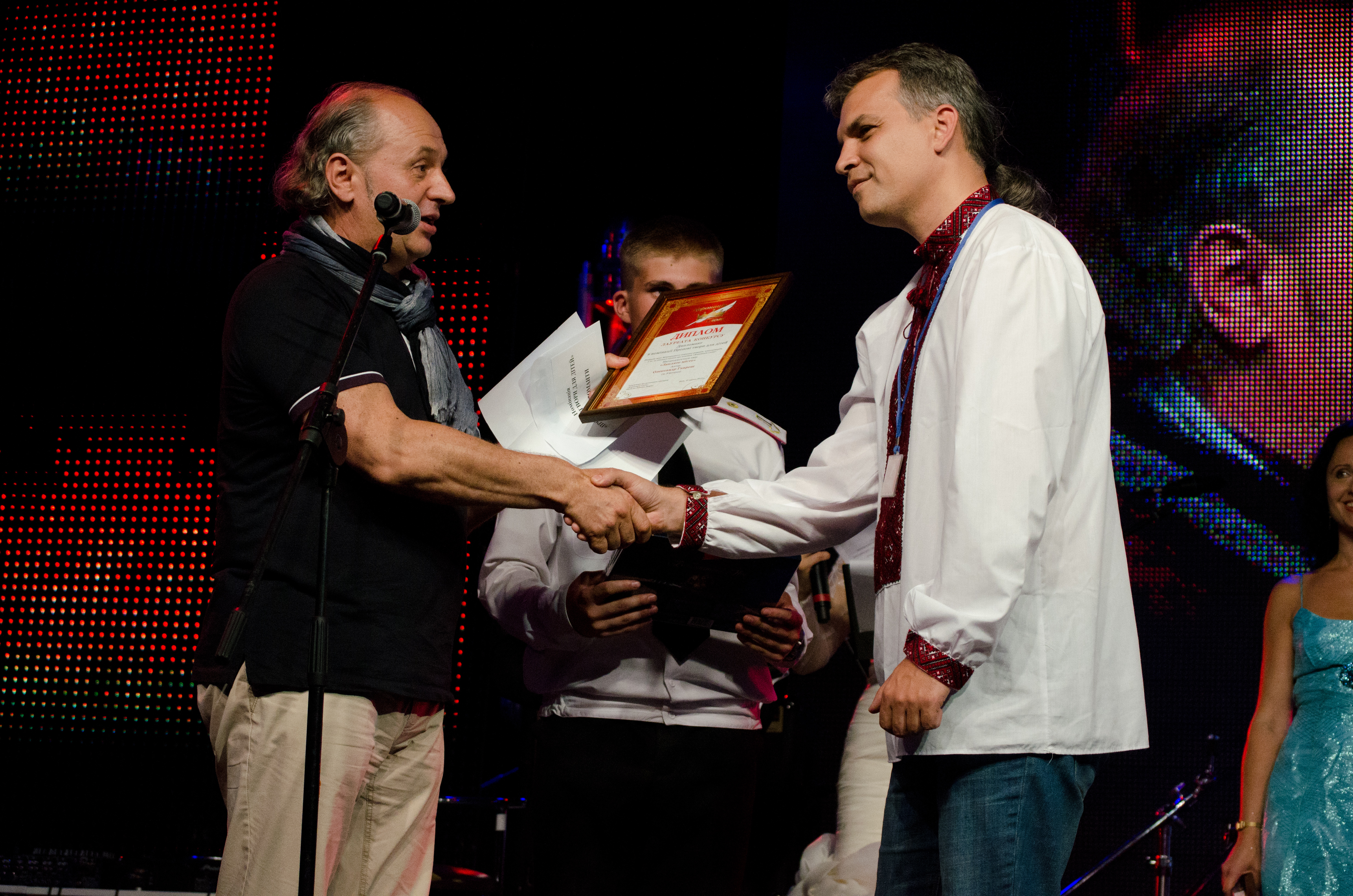 Koronatsiya Slova 2013 literature awards ceremony, Kiev, Ukraine